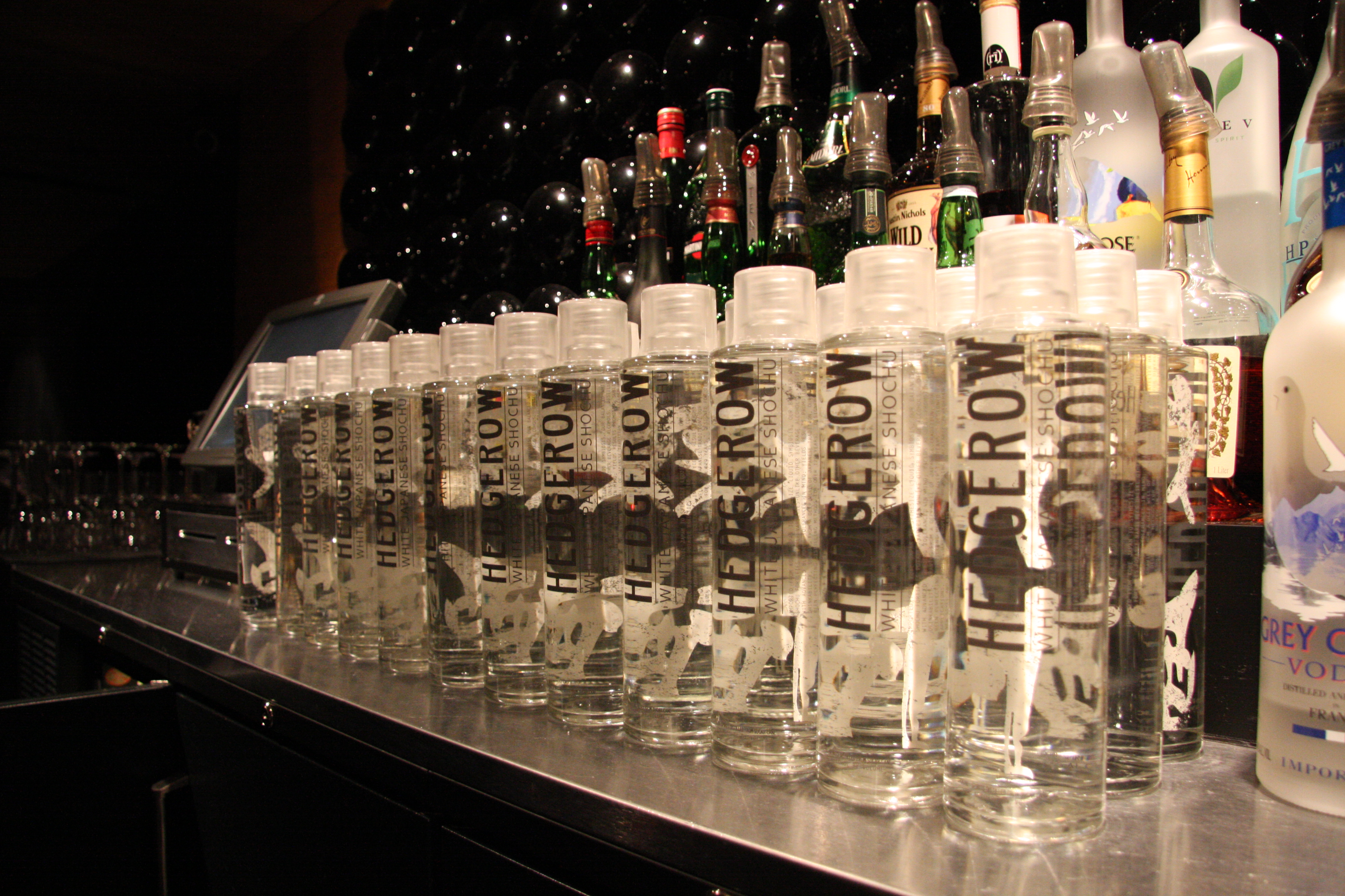 Image of a Shochu bottle